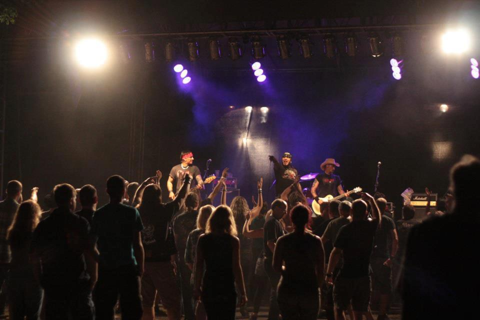 Mecafe koncert kép